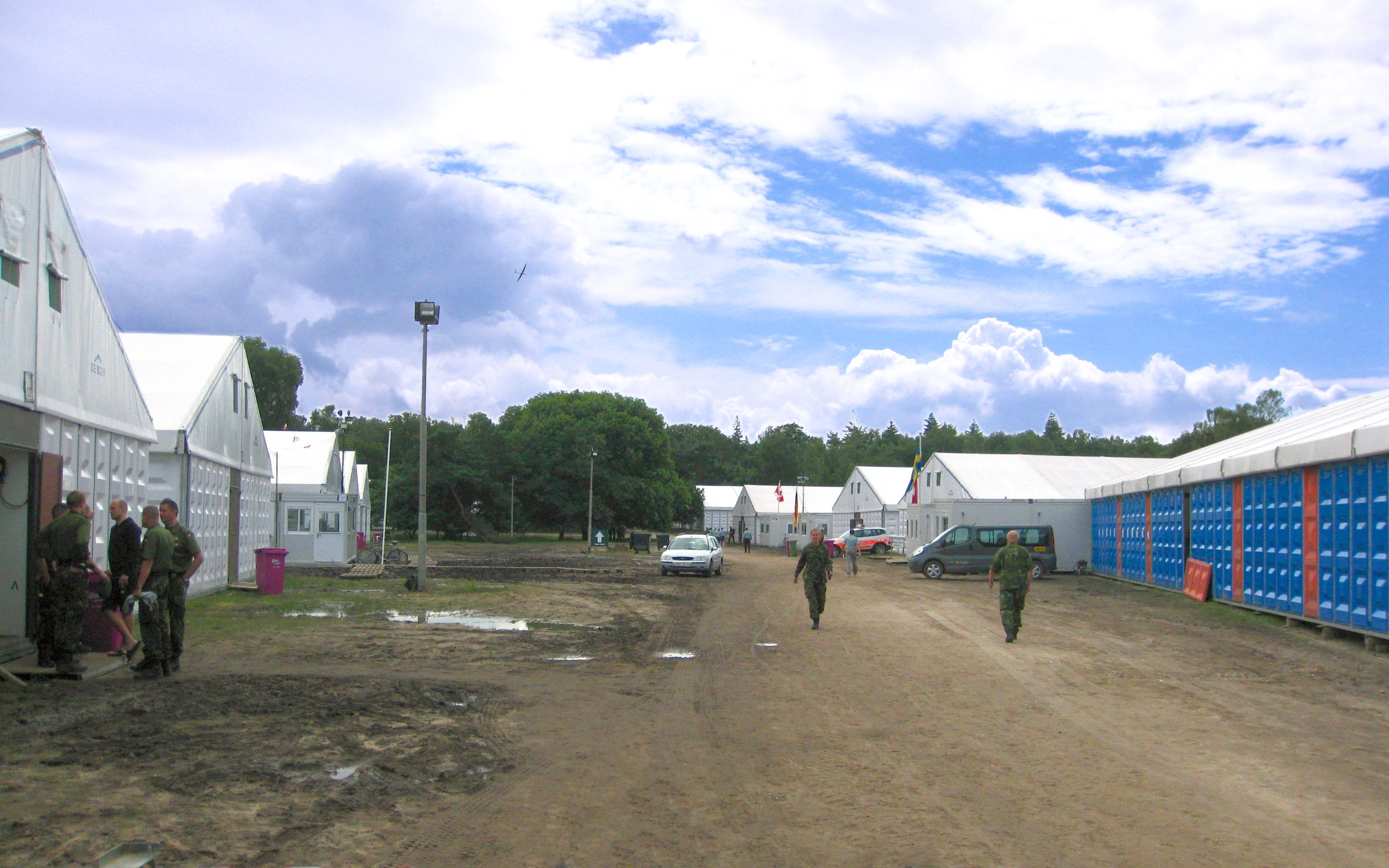 The barracks in Camp Heumensoord during The four day marches.